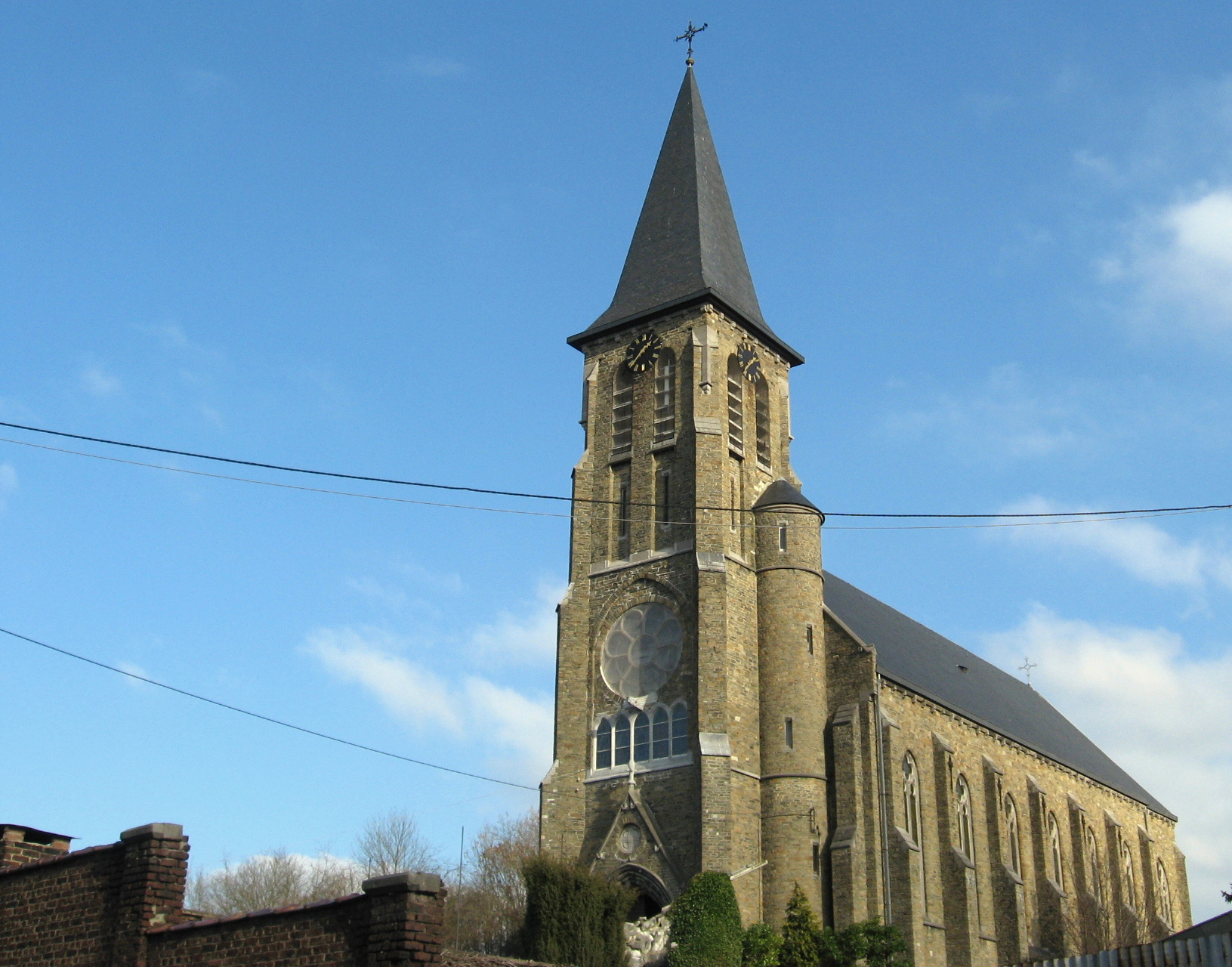 Church of Our Lady of Lourdes in Wegnez, Pepinster, Liège, Belgium